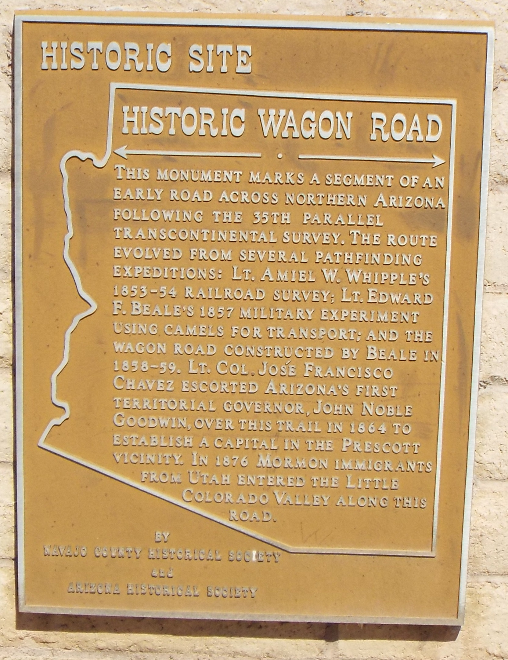 Historic Wagon Road Marker on Joy Nevins Ave. in Holbrook, Az.